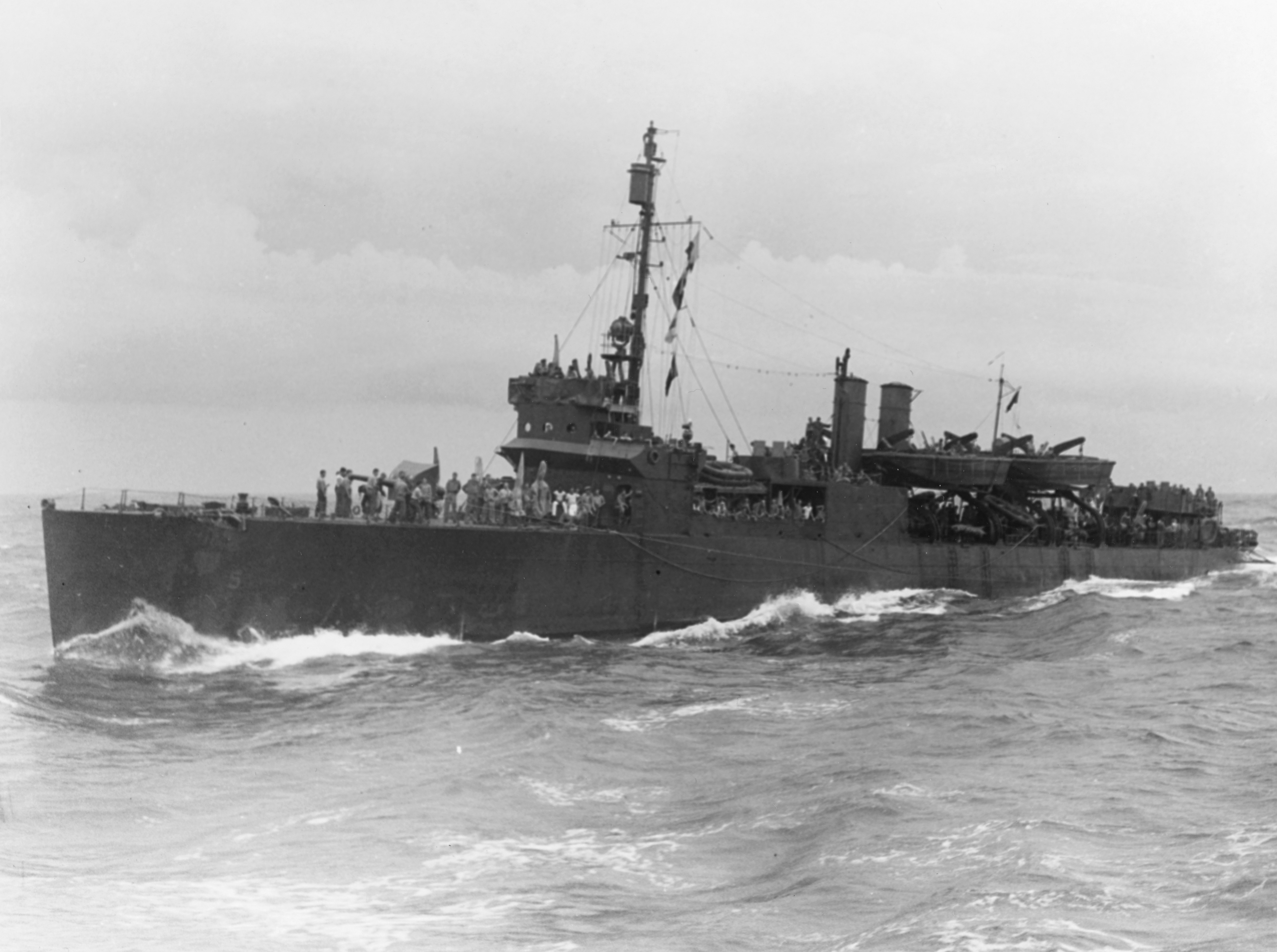 The U.S. Navy high speed transport USS McKean (APD-5) photographed from the heavy cruiser USS San Francisco (CA-38) on 7 August 1942, the first day of landings on Guadalcanal and Tulagi. McKean was part of the Tulagi landing group.